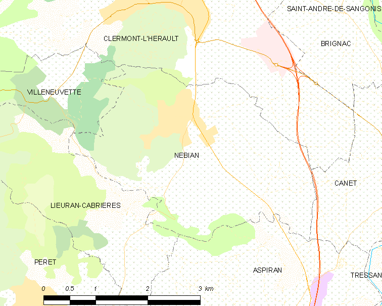 Map commune FR insee code 34180.png - Nébian